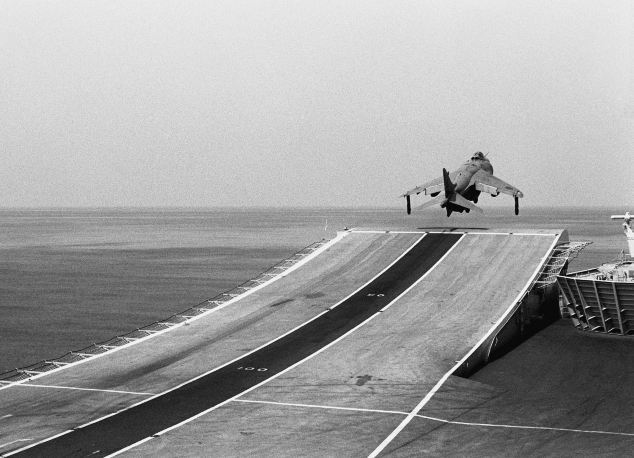 A Royal Navy BAe Sea Harrier FRS.1 aircraft from 800 Naval Air Squadron taking off from the flight deck of the British light aircraft carrier HMS Invincible (R05) during the NATO Southern Region exercise "Dragon Hammer '90".